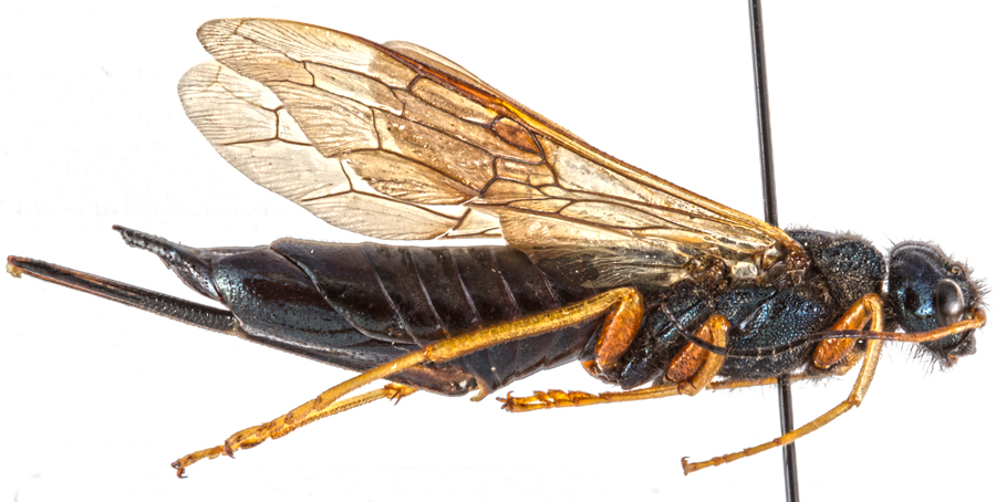 Photograph of the species Sirex cyaneus. Specimen in the collections at the Swedish Museum of Natural History.